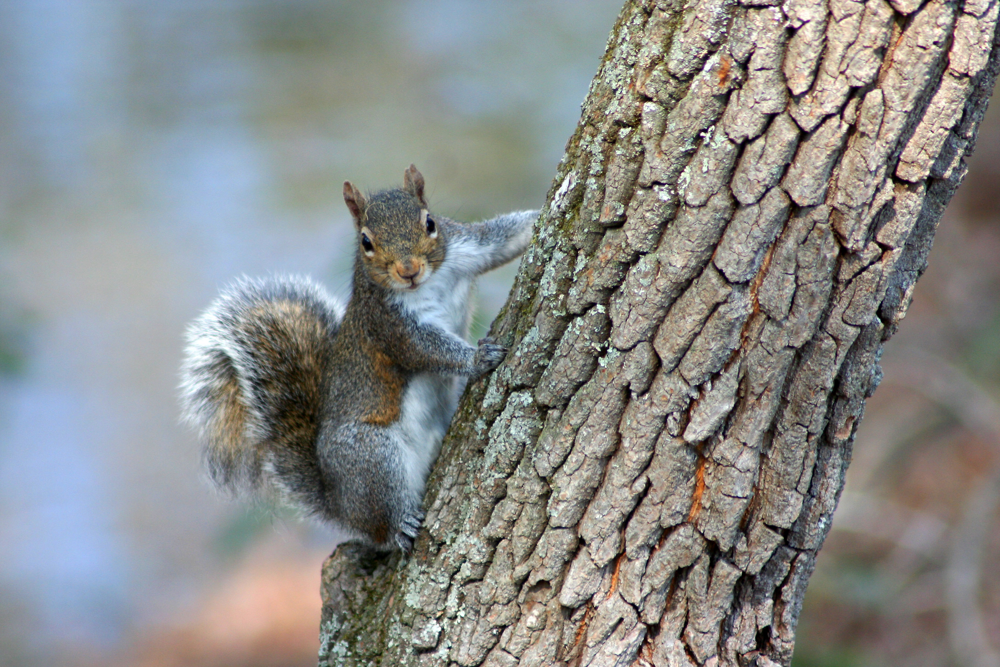 Sciurus carolinensis in South Carolina.